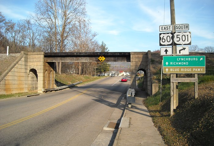 Looking east down U.S. Route 60 in Buena Vista towards the interchange, and northern terminus, of U.S. Route 501. The railroad bridge in the foreground is the former Norfolk and Western Railway, now Norfolk Southern, Roanoke District mainline.